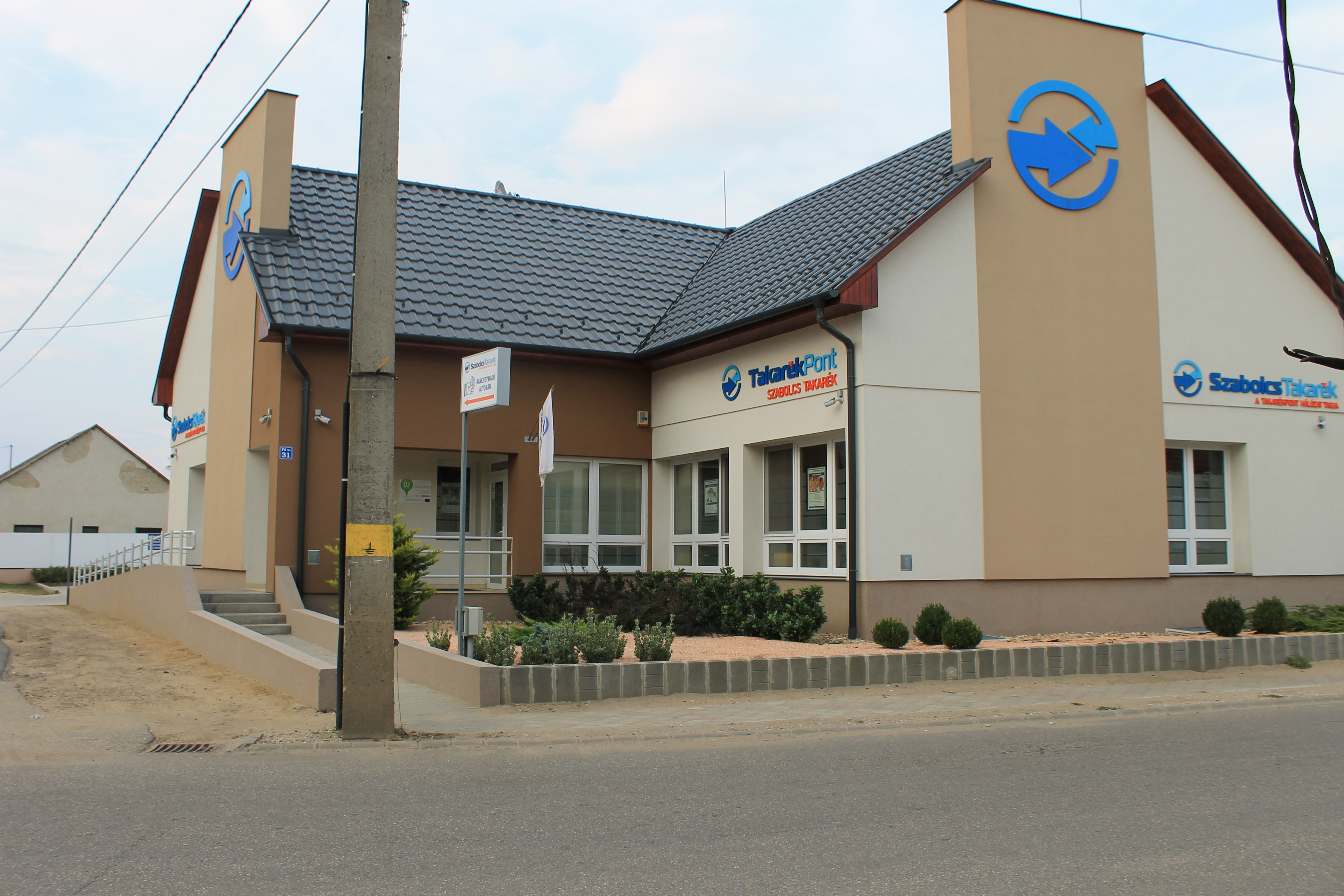 The building of the Szabolcs Takarék Saving Cooperative in Balkány, Hungary